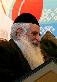 Hakham Yousef Hamadani Cohen, Chief Rabbi of Iran